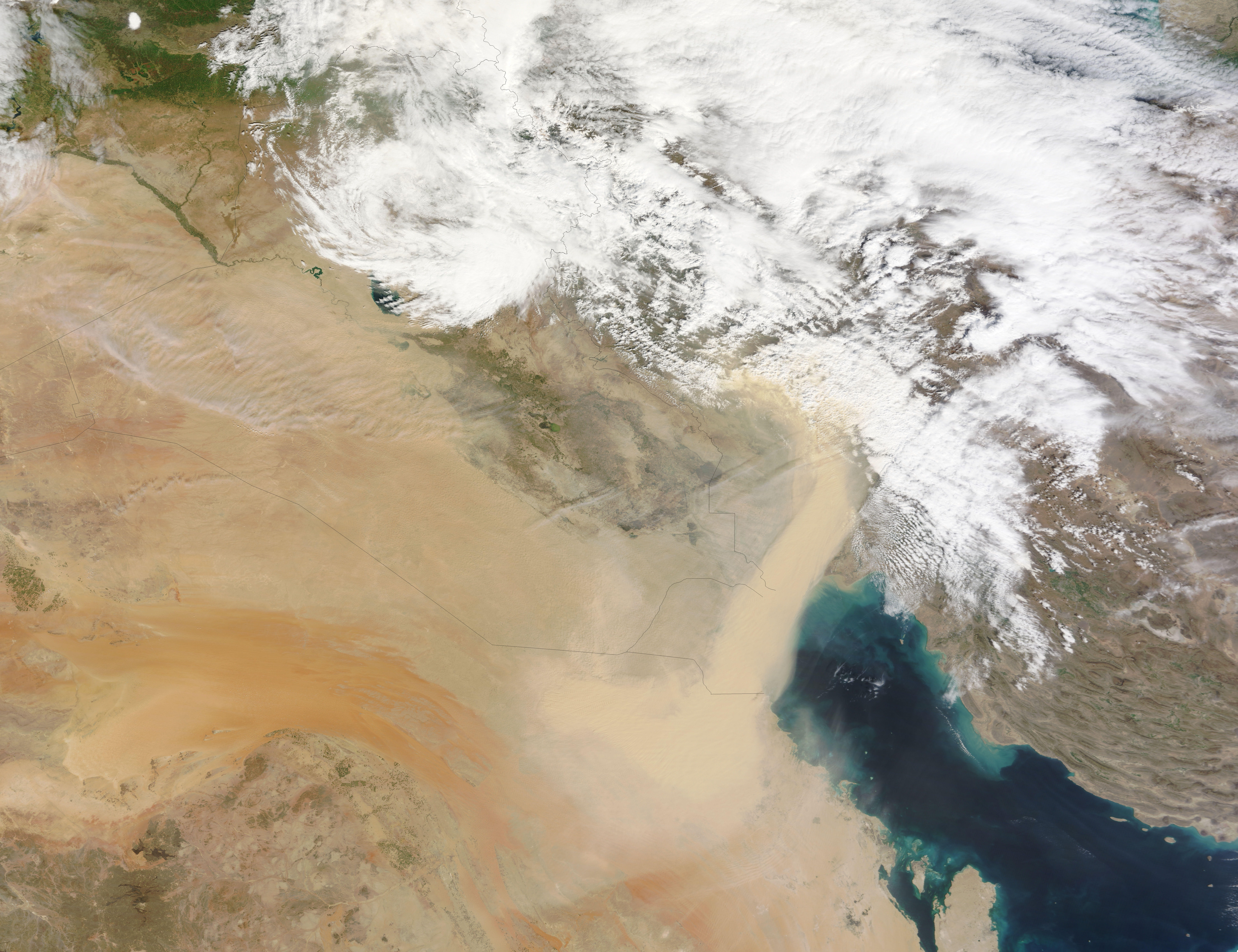 A thick dust plume over Kuwait and the north-western tip of the Persian Gulf. An opaque dust plume some 100 kilometres in width extends from Saudi Arabia across eastern Kuwait and into Iran, where the dust appears to mingle with clouds. Thick enough to completely obscure the satellite’s view of the planet’s surface, the dust plume hides part of the Persian Gulf. Both east and west of the dust plume, however, skies are largely clear. The cloud-bank over Iran might be associated with the same weather pattern that stirred the dust.